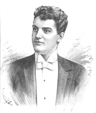 Potrait of Rudolf Seibold (1874-1952), Austrian and German actor.